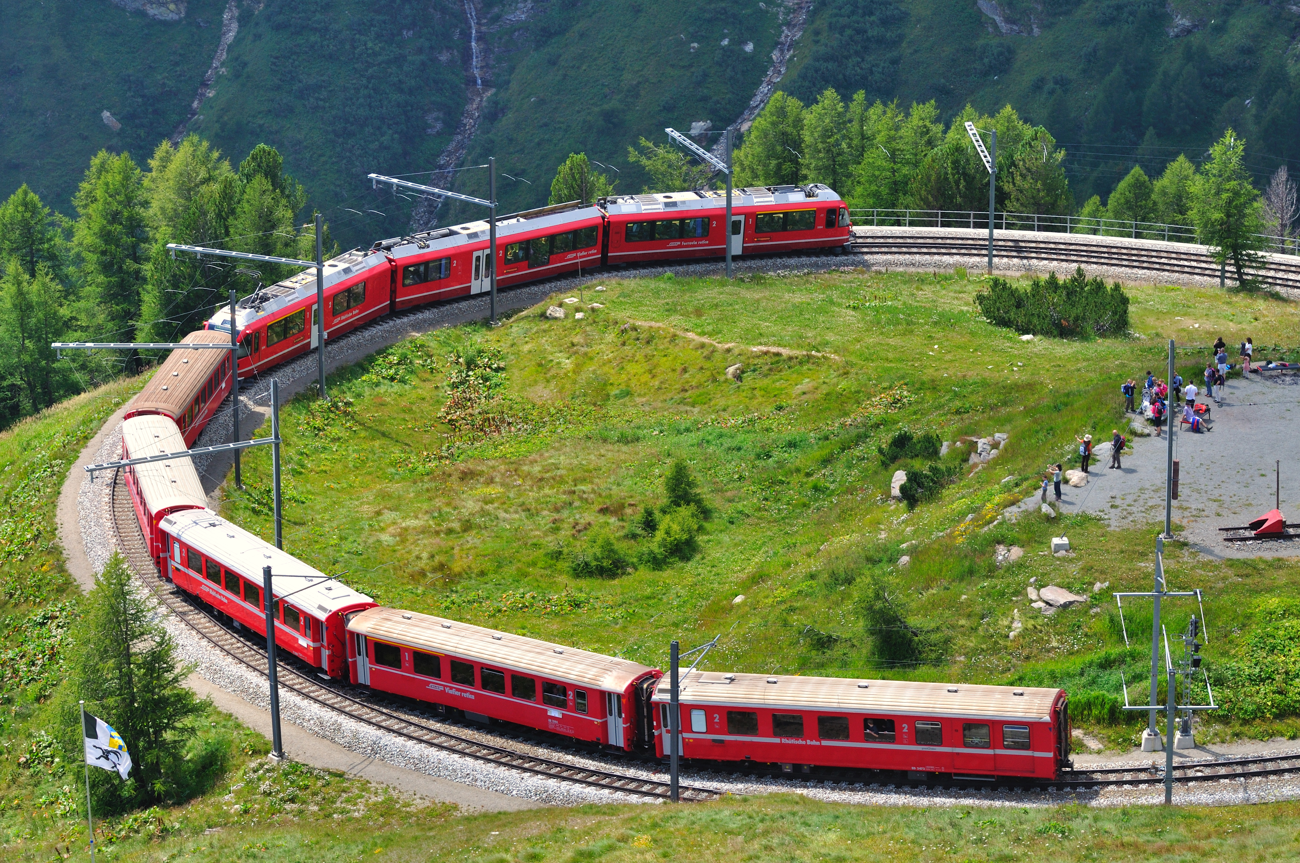 Switzerland, Graubünden, Bernina line of the Rhaetian railway